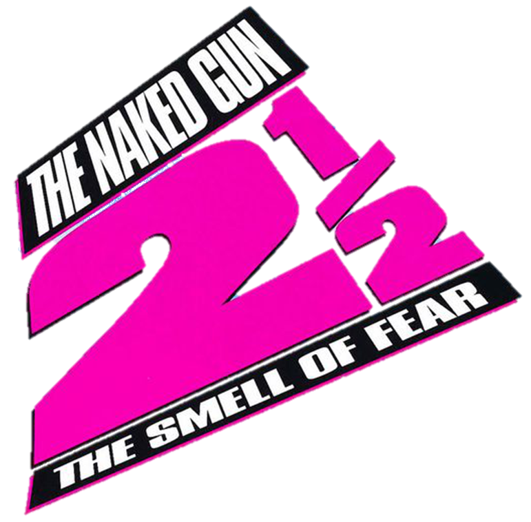 Logo of the movie The Naked Gun 2½: The Smell of Fear